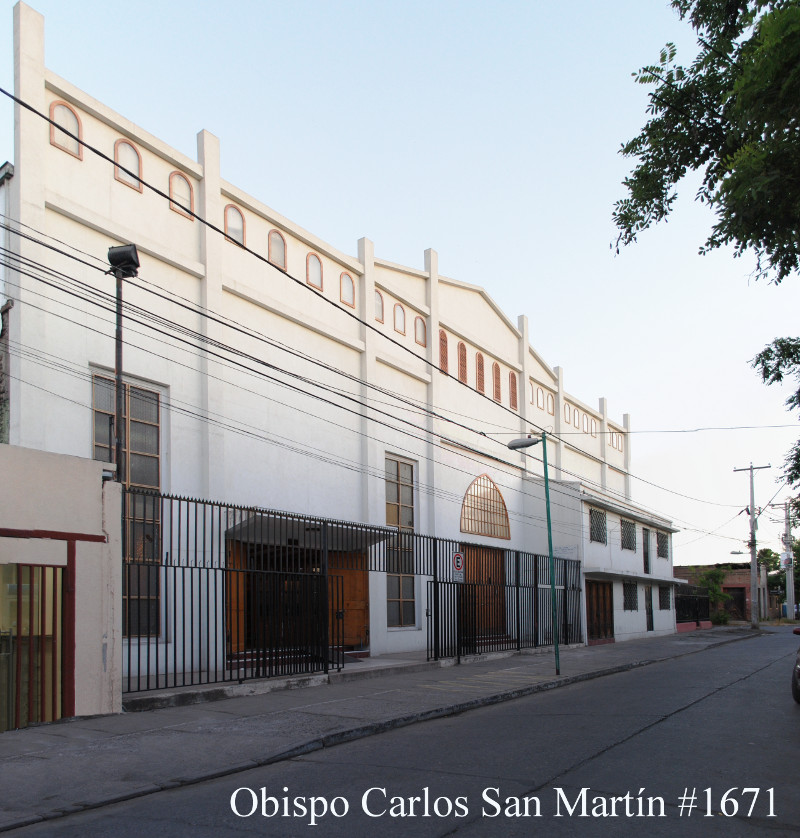 United Methodist Church Pentecostal God will provide